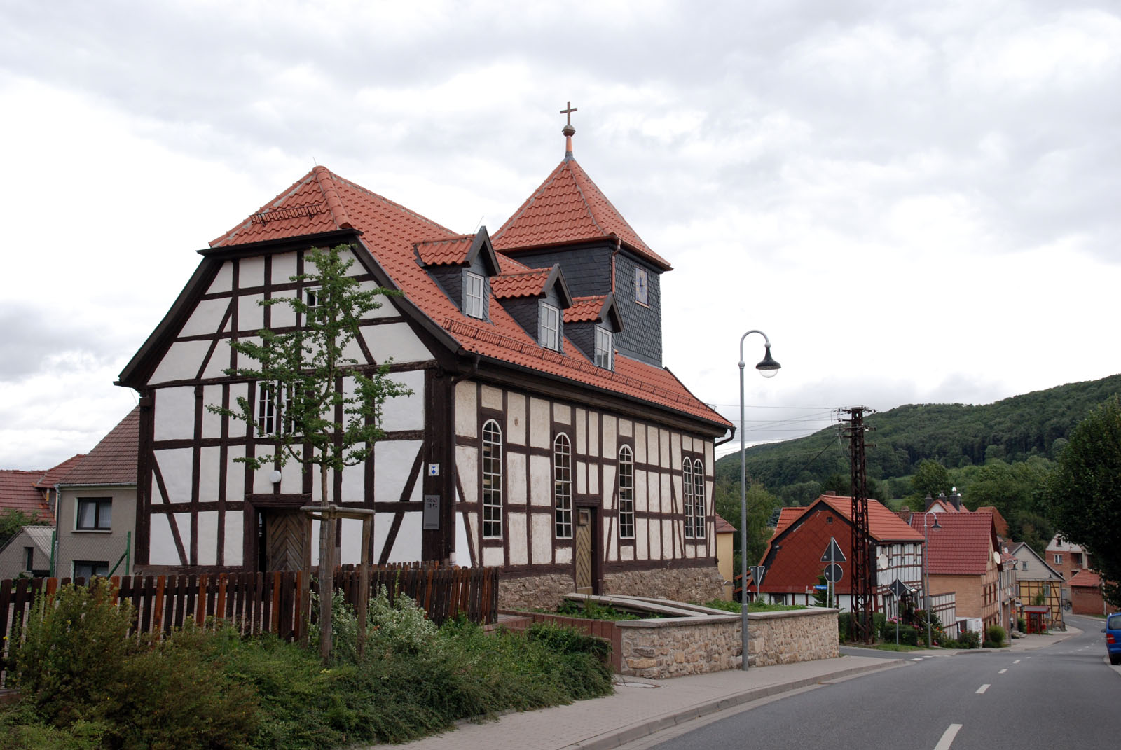 Kirche Rehungen (im Hintergrund der Dün mit dem Kriegsberg)